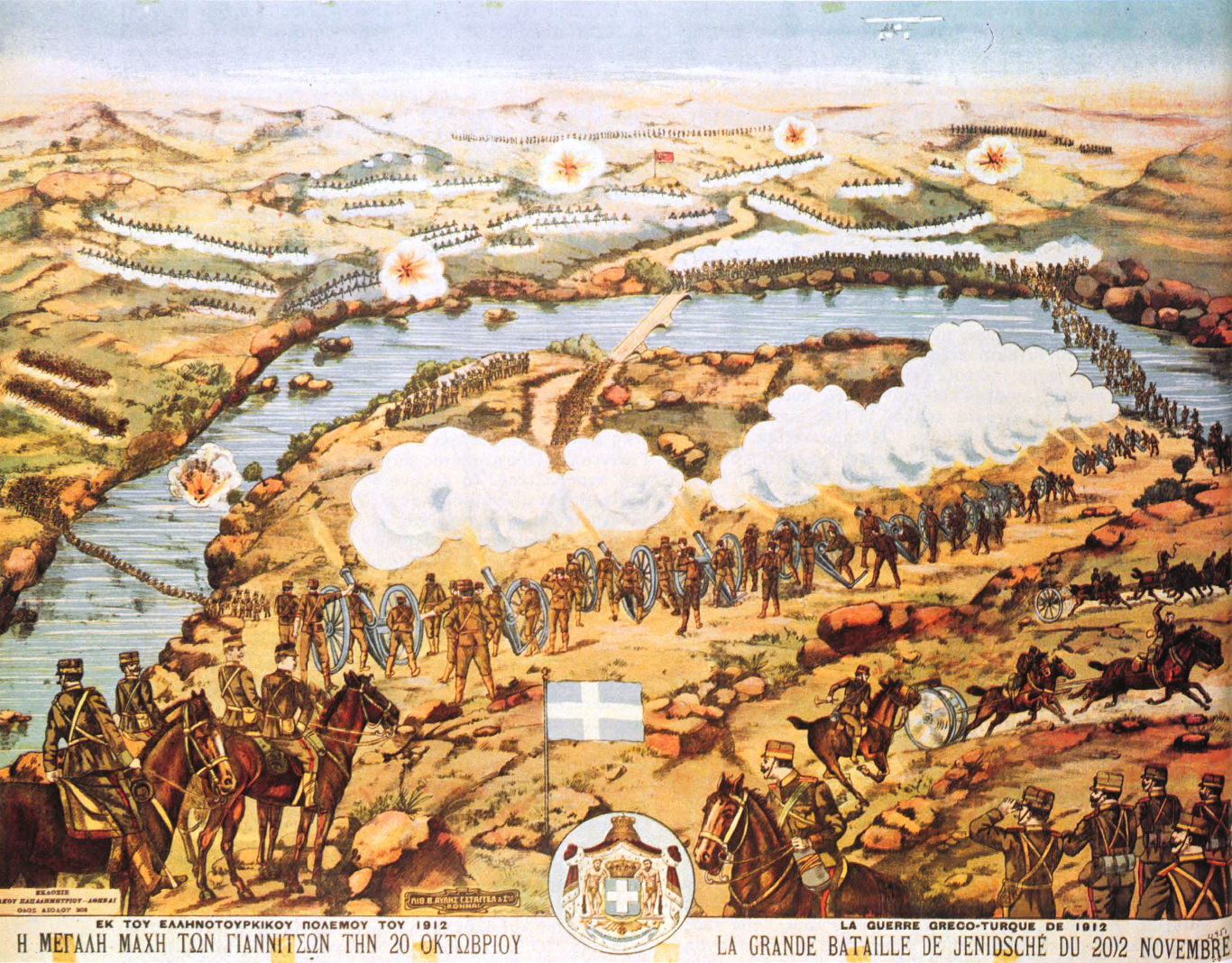 Popular lithograph depicting the Battle of Yenidje Vardar (Giannitsa) during the First Balkan War